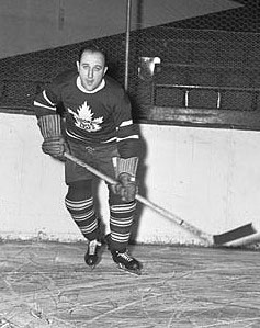 Hockey Hall of Famer Sweeney Schriner as a member of the Toronto Maple Leafs (1939-1946)